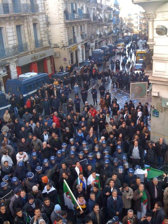 Manifestation organizied by RCD in Algiers, photo taken from a balcony. The Jan 22nd 2011